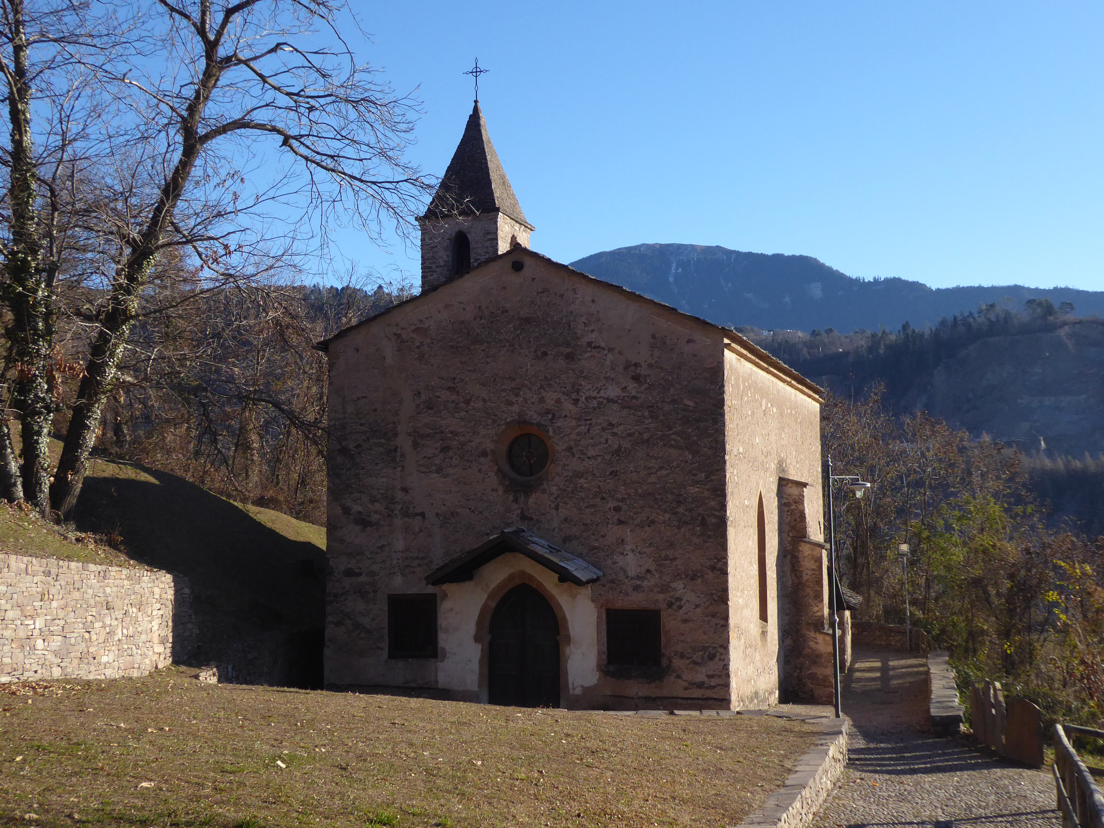 Santo Stefano (Fornace, Trentino, Italy) - Saint Stephen church